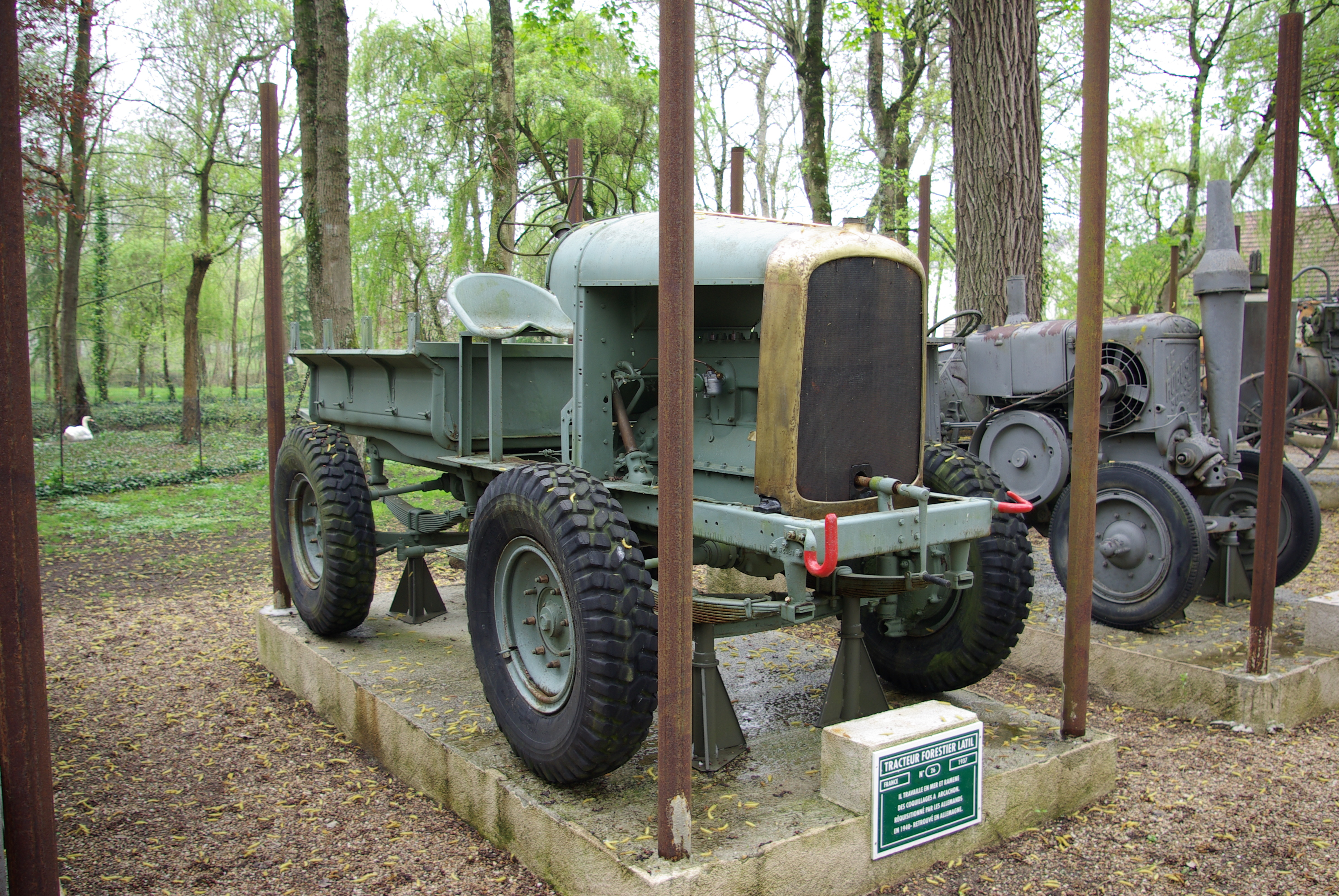 A forest tractor made by Latil in 1937. Exhibited in museum Maurice Dufresne (Azay-le-Rideau, Indre-et-Loire, France).